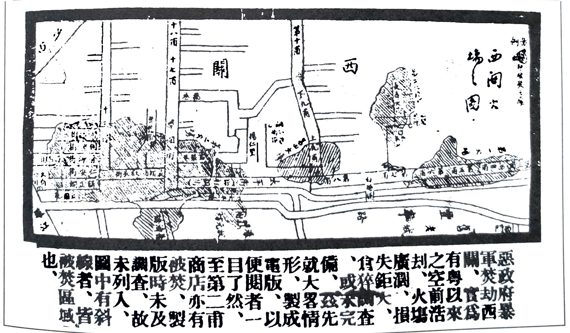 Report of Sun Yat-sen's burning of Sai Kuan by The Hong Kong Chinese Mail in 1924.